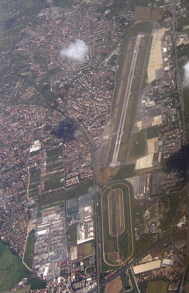 Aerial photo of Ciampino (Rome) and relative airport